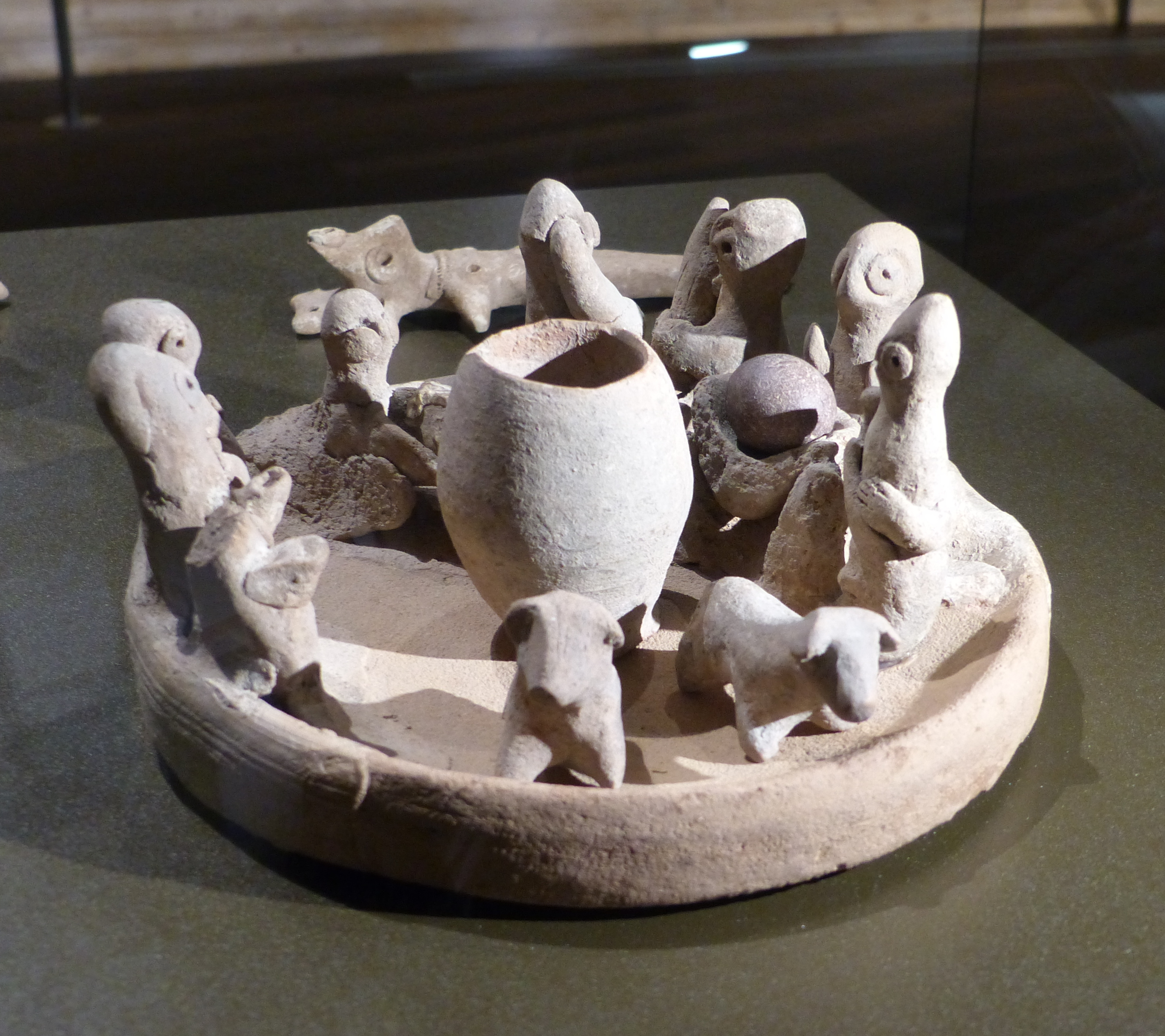 Asten ( Upper Austria ). Paneum ( Bread museum ) - Model of a syro-hittite bakery ( 3000 BC )